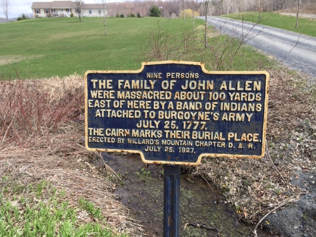 A historical marker in Argyle, New York for those killed at the John Allen Farm in July 1777 by Native American's attached to British General Burgoyne's Army on their way to the Battles of Saratoga during the American Revolutionary War.